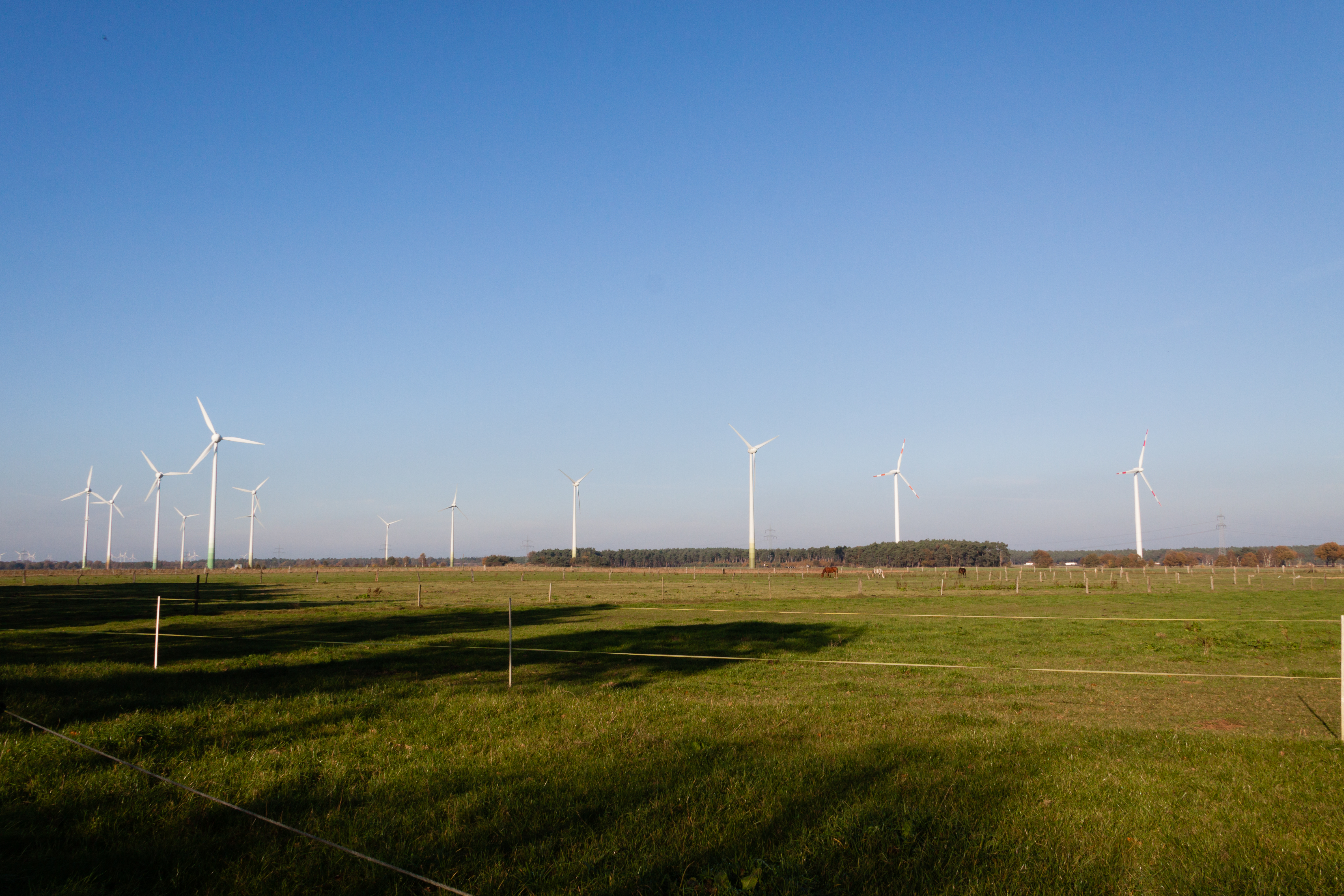 wind farm in Elze and Meitze